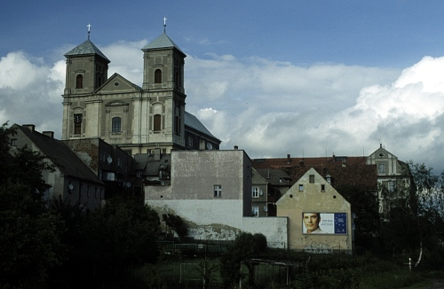 Bardo (Lower Silesia), church.